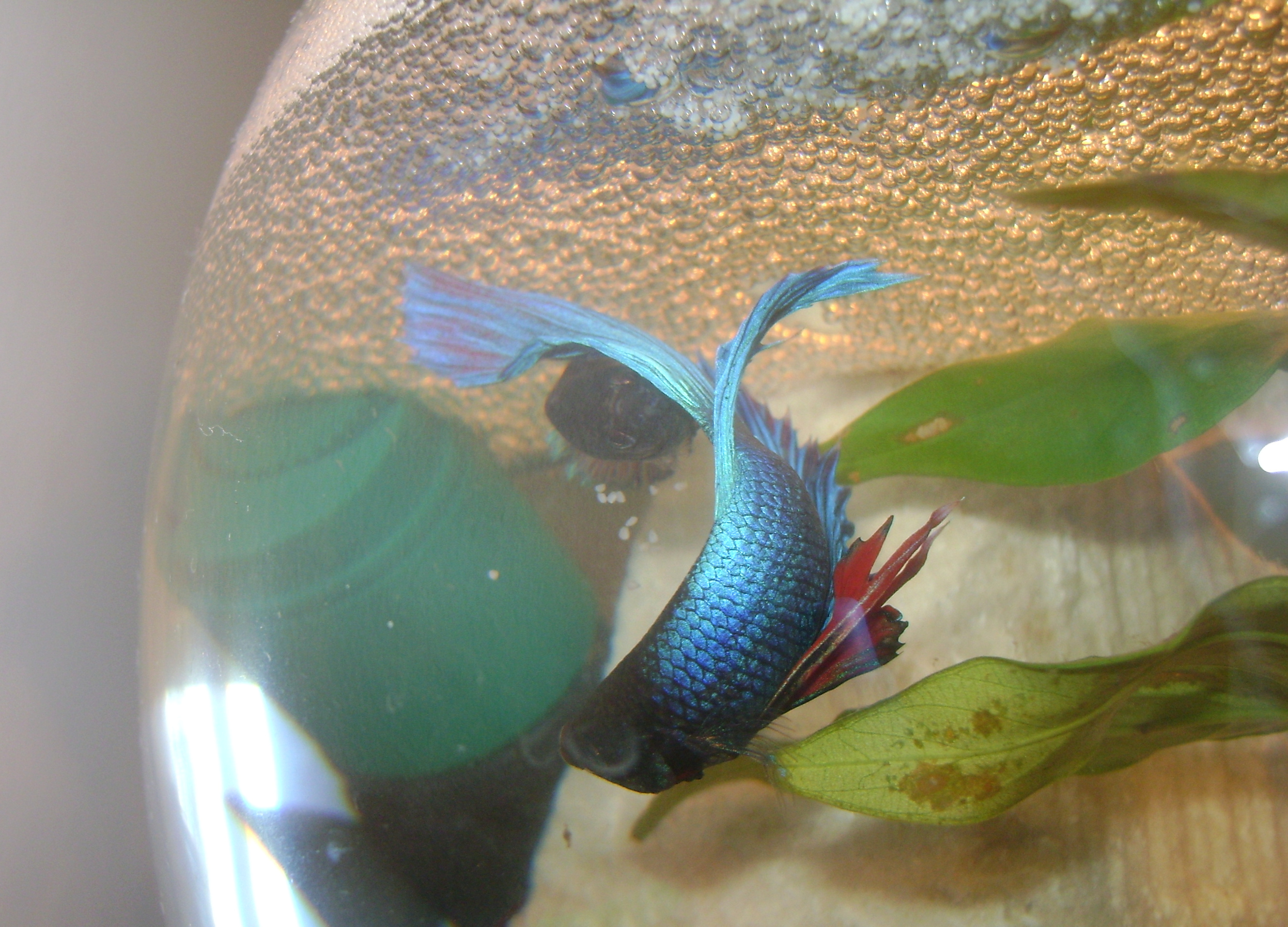 A pair of Betta splendens spawning in an aquarium. The beautifully colored male (below) has started to retrieve some of the sinking eggs, and will spit them into the bubble nest on the surface. After the spawning he guards the nest until the roe hatch and the fries' yolk sacs are fully absorbed. The female take no part in the caring of the eggs or young fry.